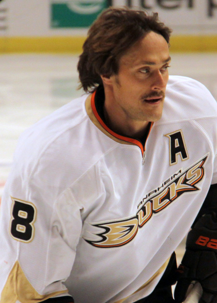 Teemu Selanne on the ice at the United Center, November 2010